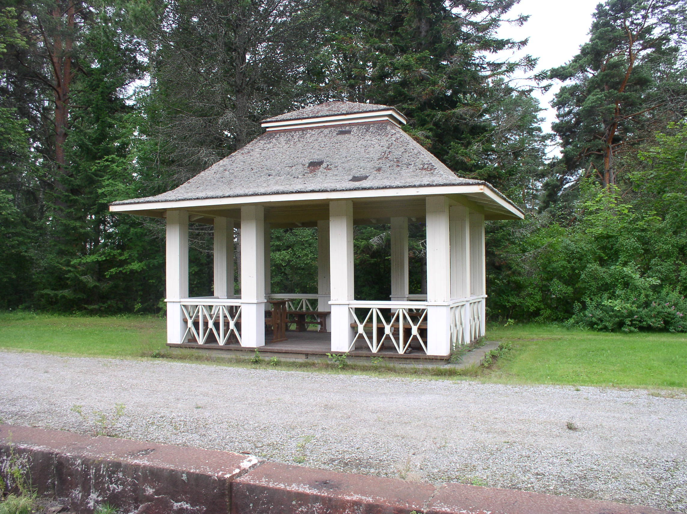 Lusto railway station, Punkaharju, Finland, pavilion for passangers